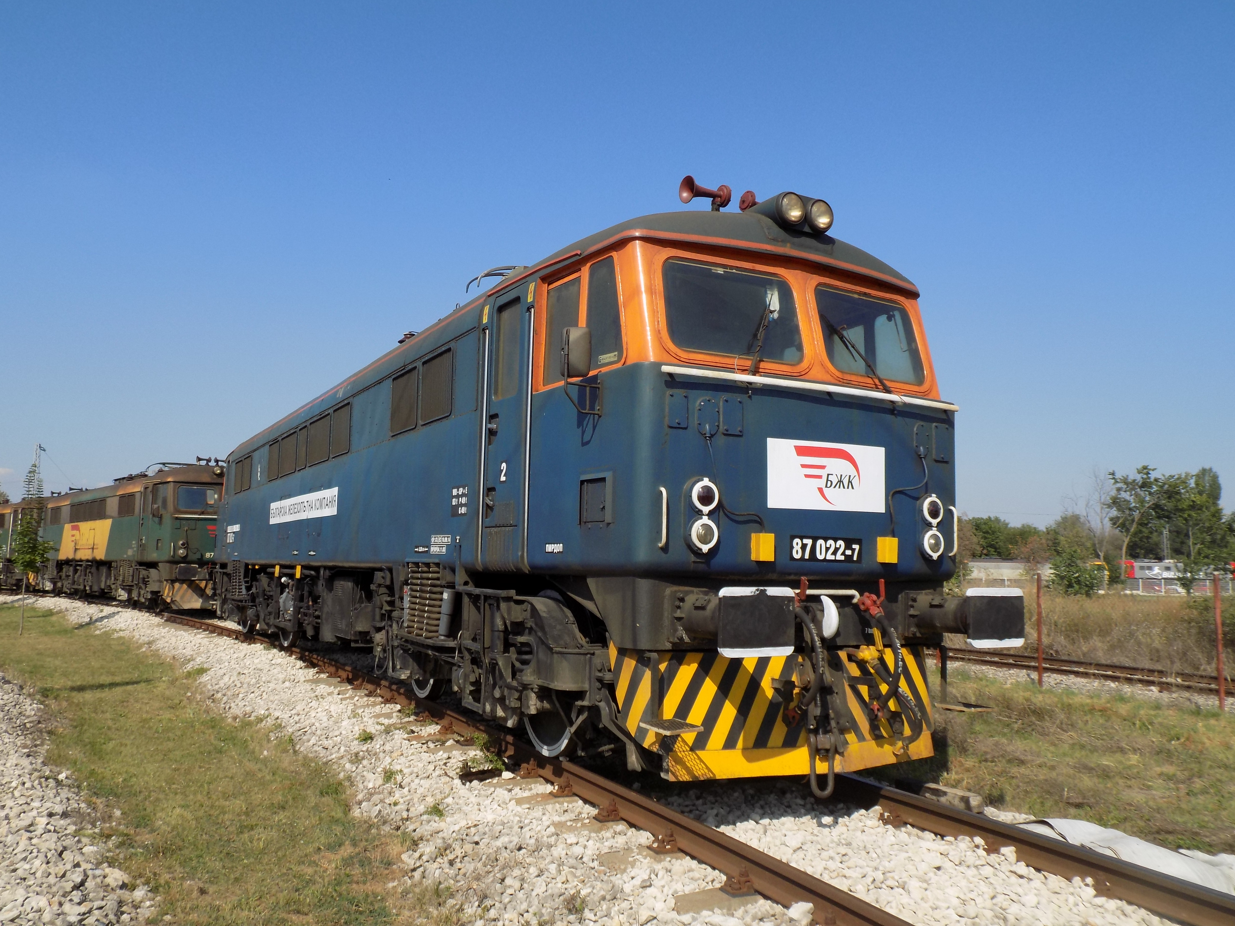 British Rail Class 87 Locomotive awaiting repair at the Express Service OOD Depot in Ruse, Bulgaria